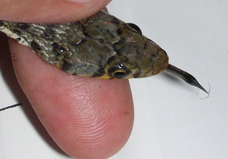 Buff-striped keelback, Amphiesma stolata, Family Colubridinae, Serpentes The snake's tongue seen closeup. Image taken on 17 Jul 06 in Binnaguri, Duars, northern West Bengal, India by AshLin. Self-work. CC2.5-Self work, attribution required. AshLin 11:45, 23 July 2006 (UTC)